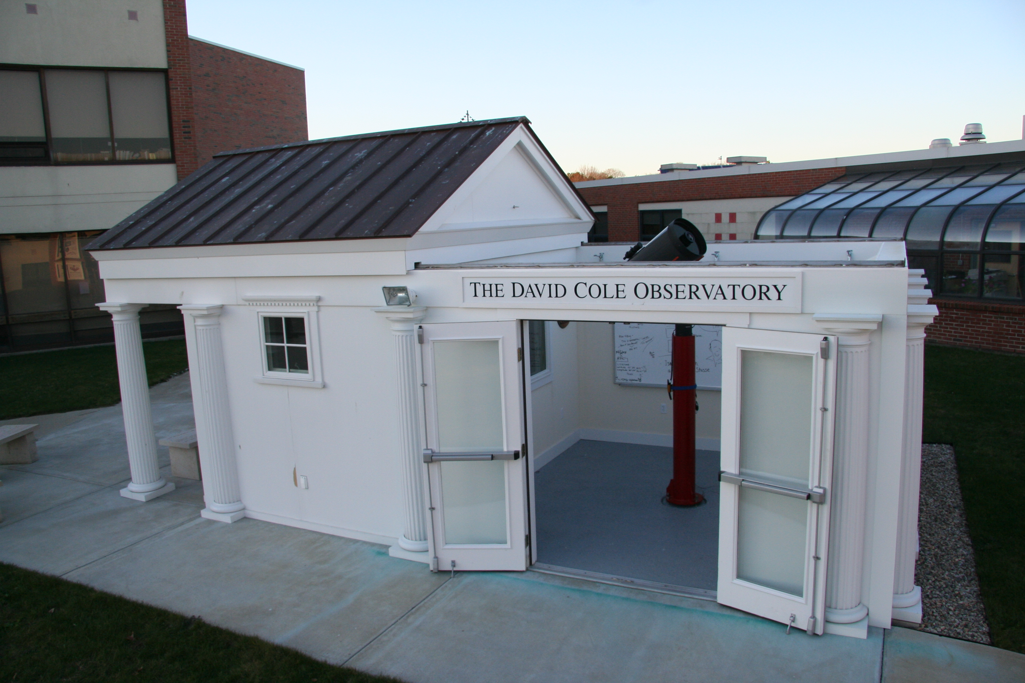 A view of the front of the David Cole Observatory at Barnstable High School.